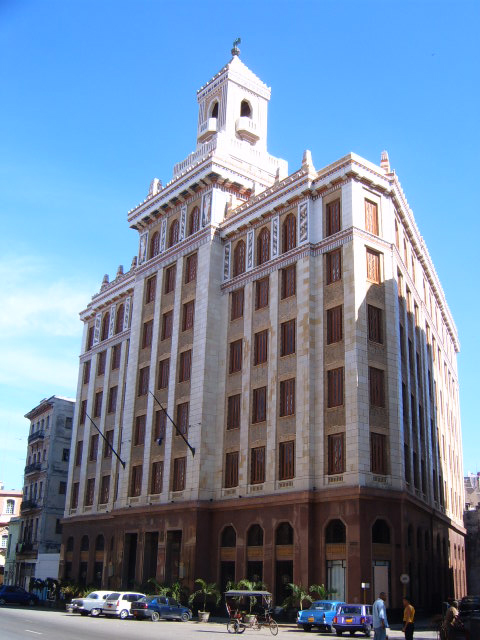 Bacardi Building, Centro Habana